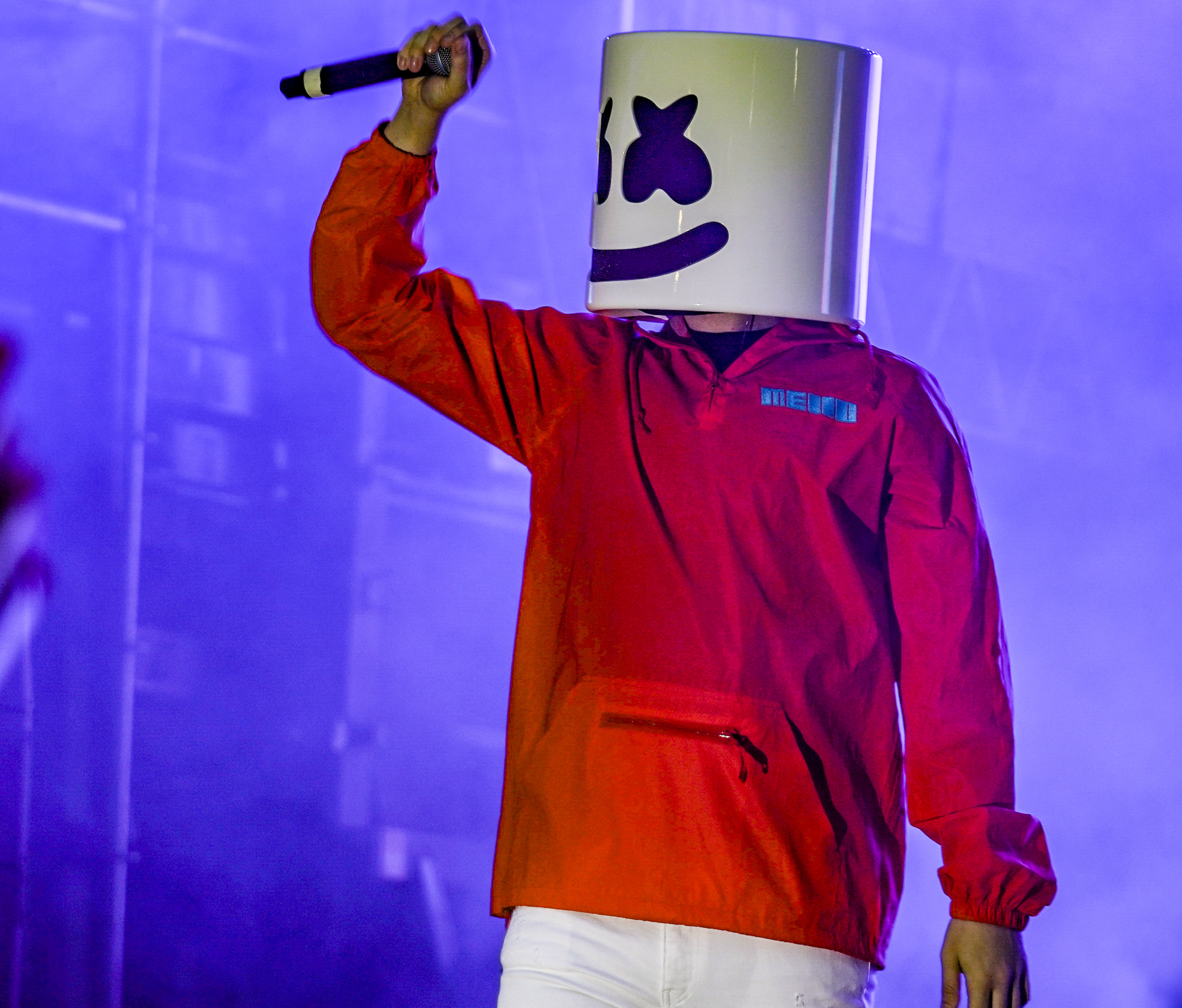 With headliners Marshmello Zara Larsson Todrick Hall Shea Diamond Calum Scott Nina West Big Dipper Pride2019 #CapitalPrideDC #CapitalTransPride #ShhhOUT #PastPresentAndProud